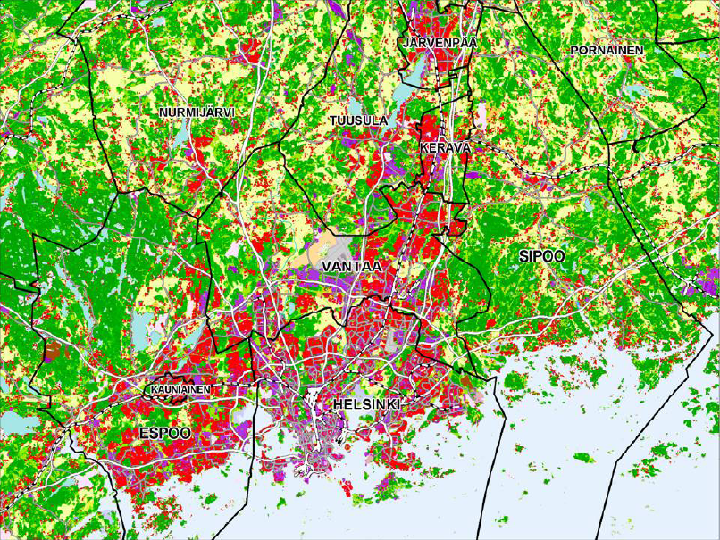 Map of Helsinki metropolitan area, showing the land use. Key Green: Forest. Red:Dwellings Purple: Industrial and office use Yellow: Fields Grey: Traffic use